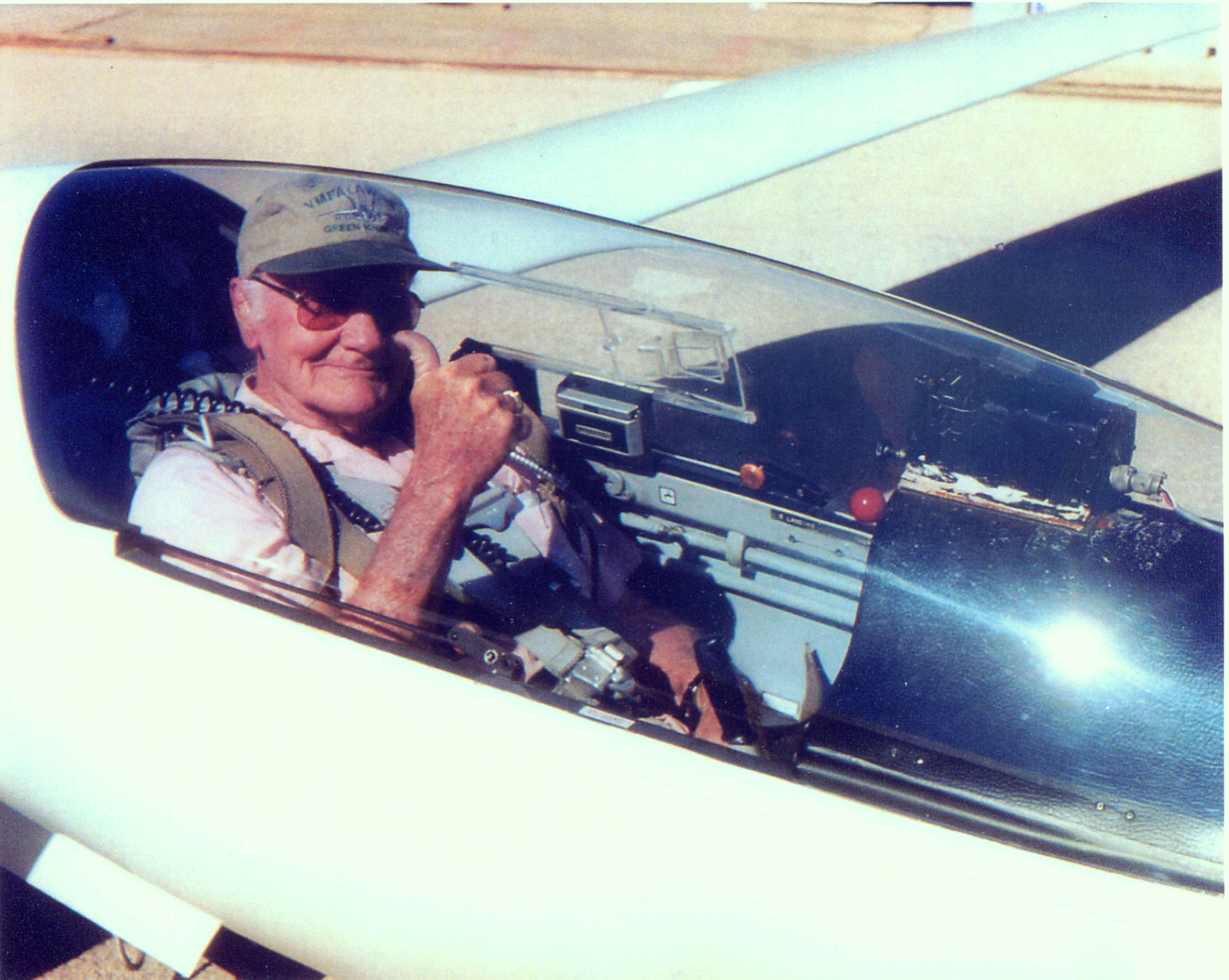 Wally Scott in ASW-20 Sailplane Ready for Take-off